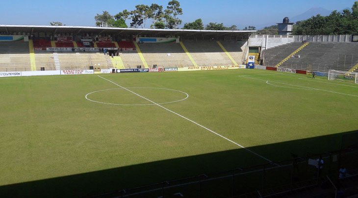 The Best Stady in Guatemala, Israel Barrios, Coatepeque